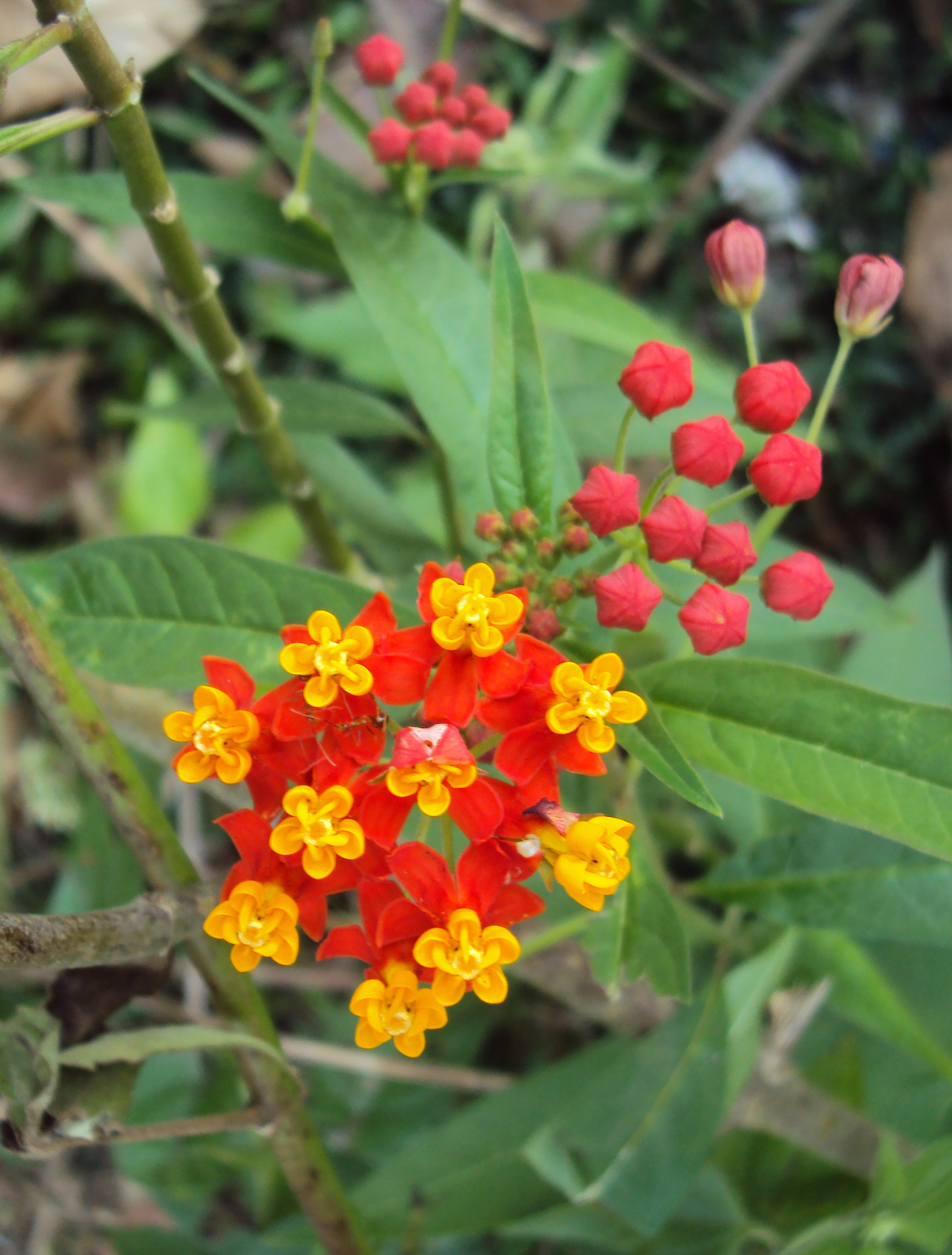 Asclepias curassavica